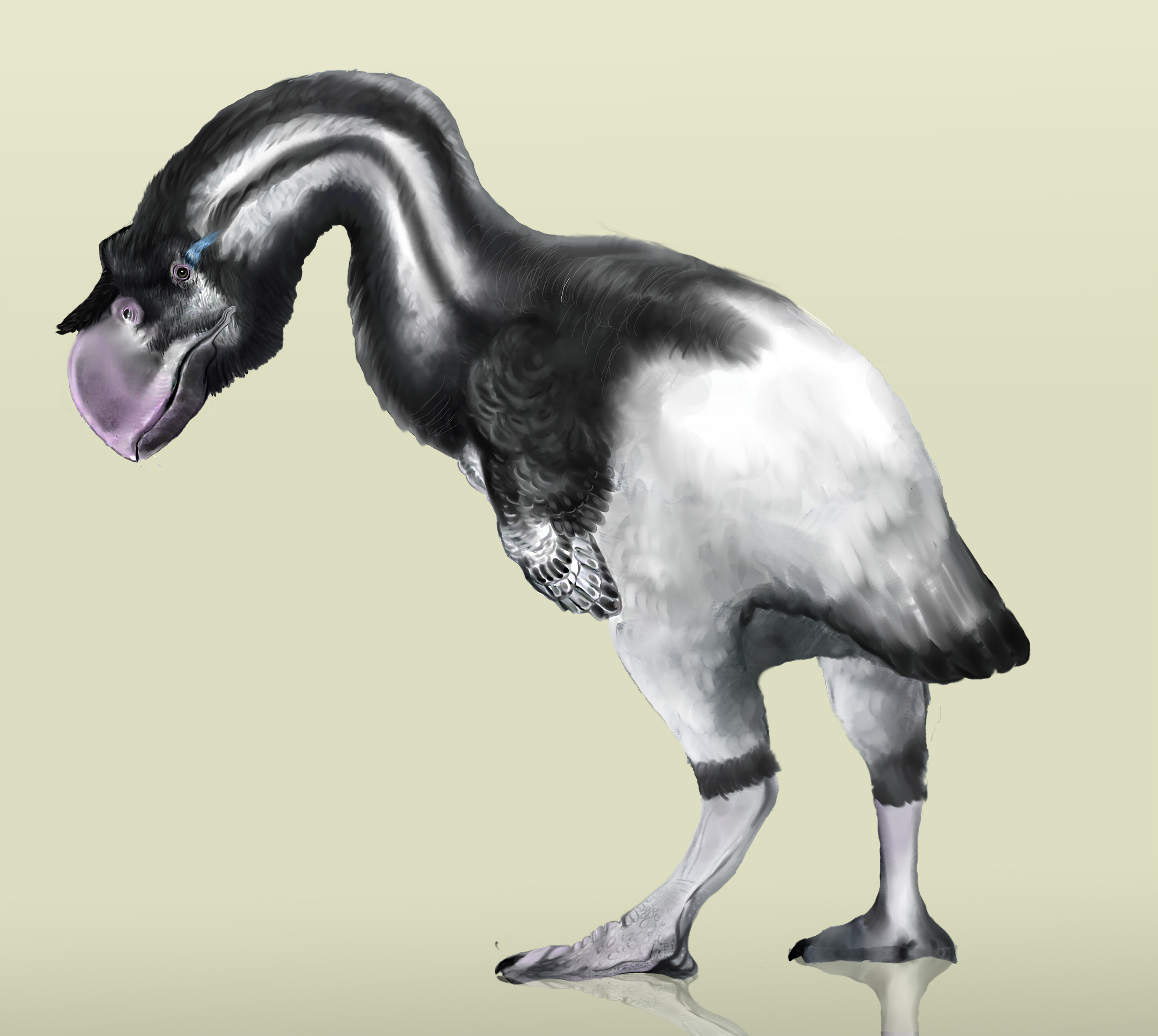 Artist impression (Daniel Goitom)